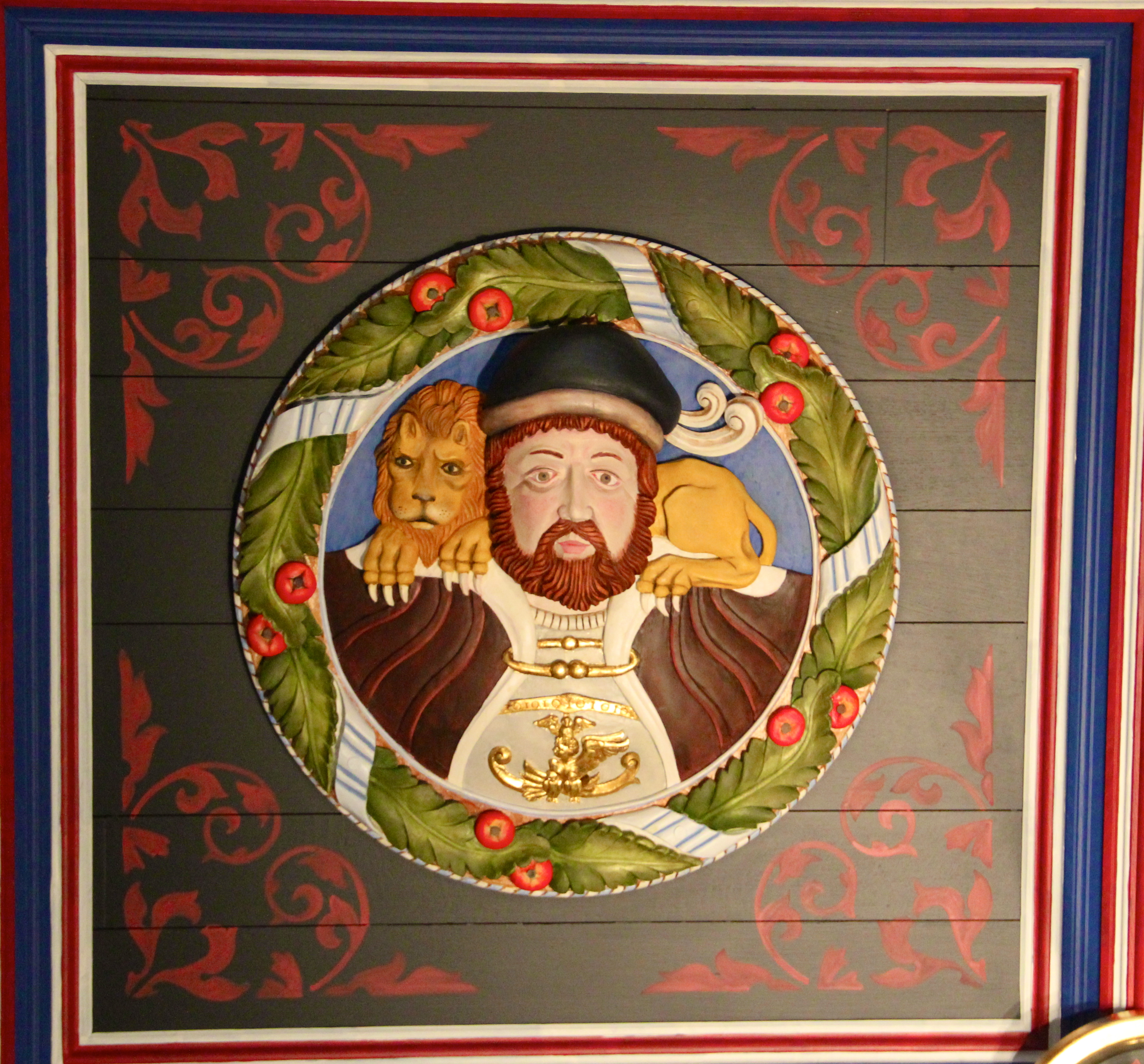 Henry VIII with a lion sitting on his shoulders. One of 37 replica "Stirling Heads" on the ceiling of the King's Inner Hall in Stirling Castle.